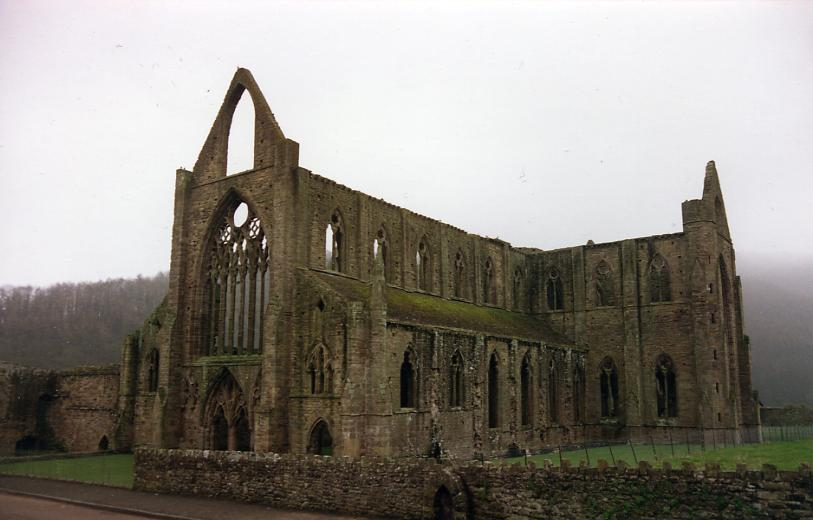 Tintern Abbey, 1993, large version; Taken by Hotlorp 03:19, 13 Jan 2004 (UTC). This version released under the GNU FDL.